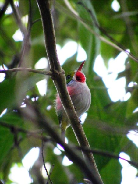 A Cuban Tody photographed in the Cienega De Zapata, Matanzas Province, Cuba.